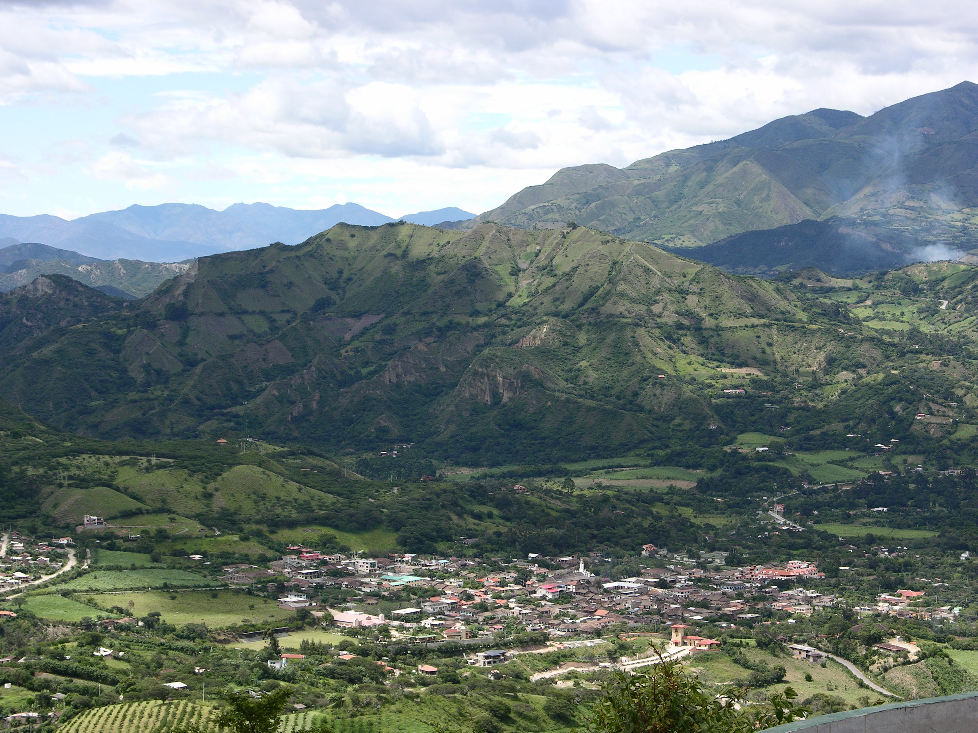 I took this photo while visiting Vilcabamba in 2007